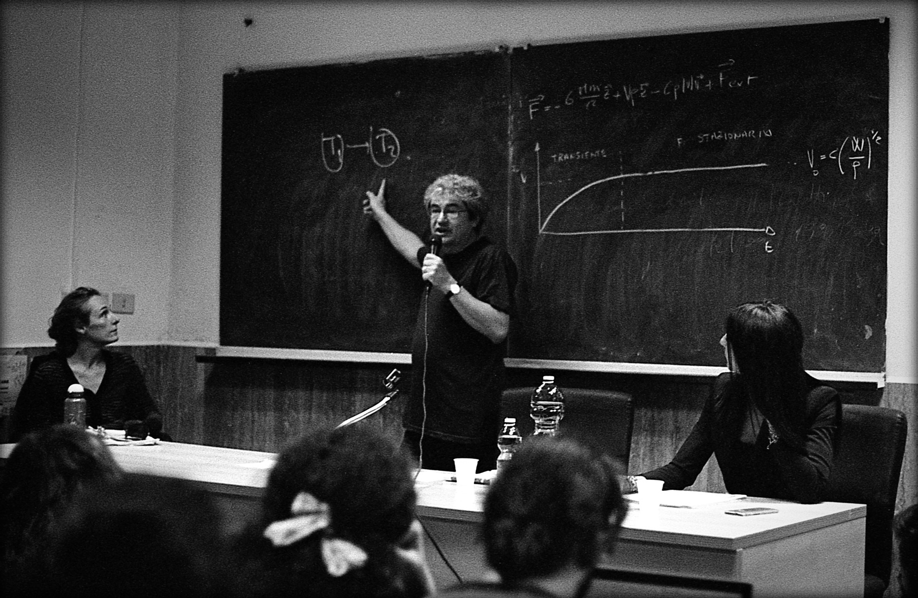 Italian physicist Carlo Rovelli. This picture was taken in Rome, Italy, La Sapienza University of Rome. Department of Philosophy. Science & Philosophy Colloquia 2015.